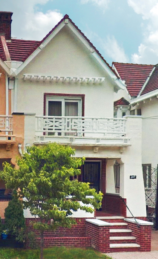 Twin home once owned by Philadelphia mob boss Philip Testa at 2117 W. Porter St, Philadelphia, PA, where he was assassinated on March 15, 1981 by a bomb placed on its porch. Captioned As {}